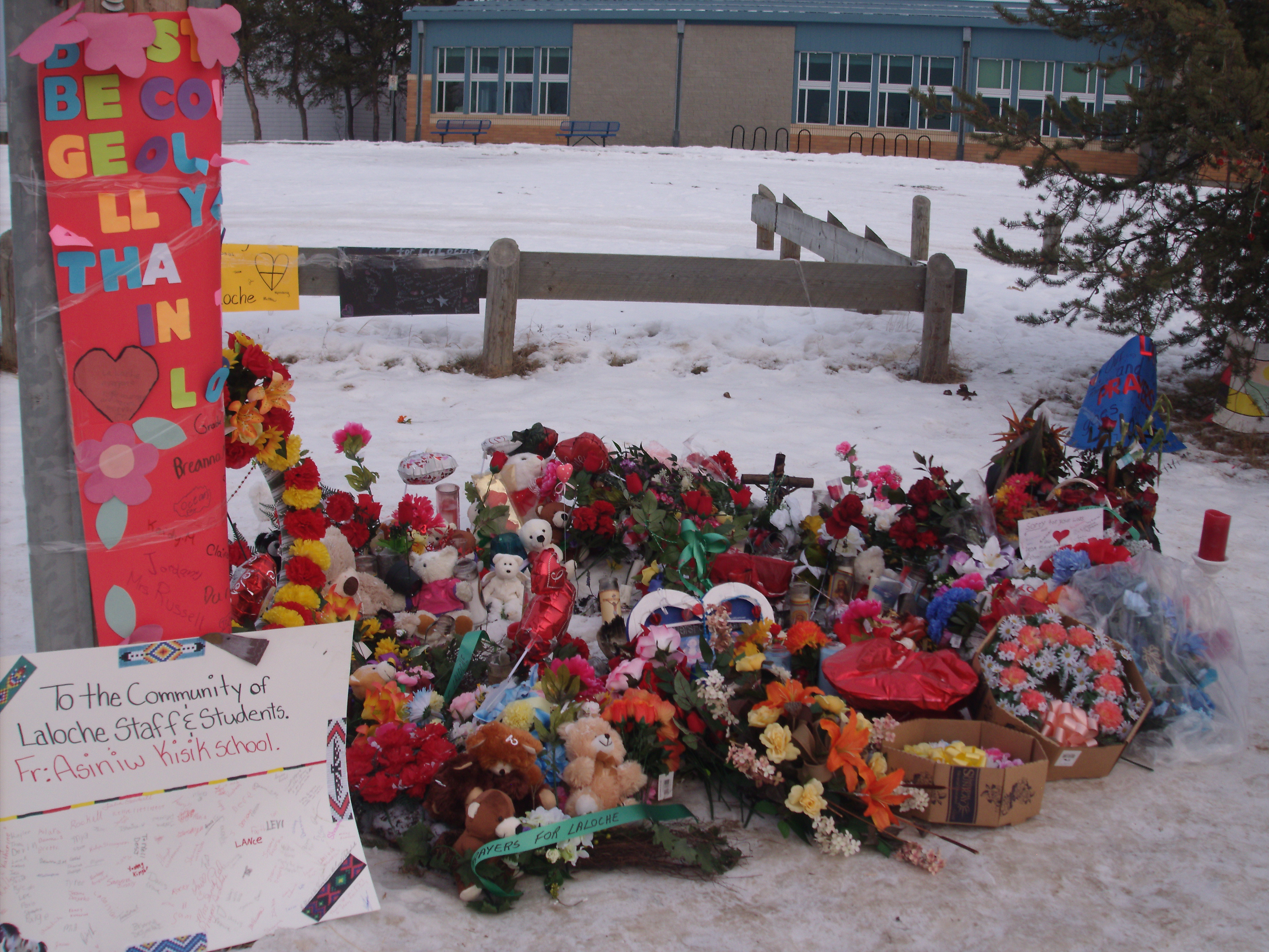 Floral display for the victims of the January 22, 2016 shootings in front of the Dene Building of the La Loche Community School